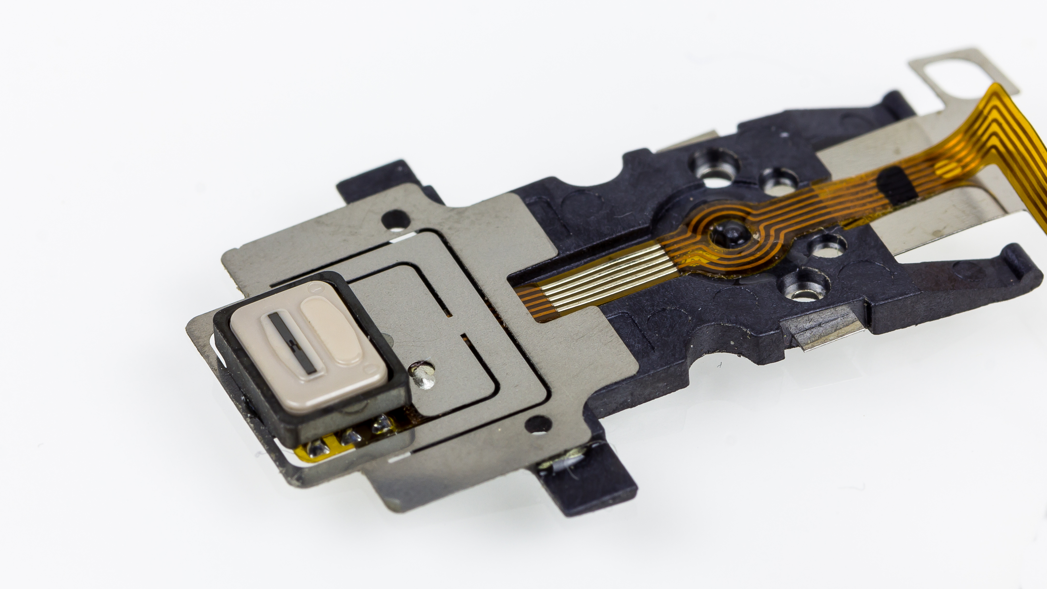 Citizen W1D-9364 - read write head